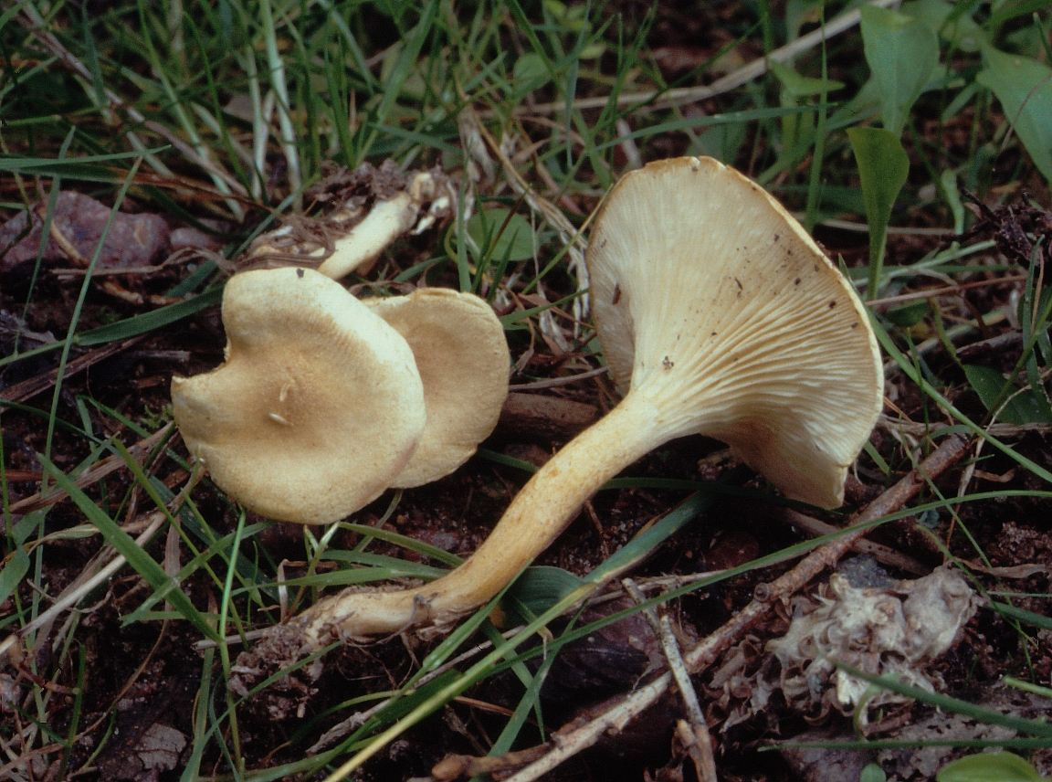 Fruitbodies of the fungus Hygrophoropsis macrospora (D.A.Reid) Kuyper. Photographed in Hoberget, Gustafs, Dalarna, Sweden.